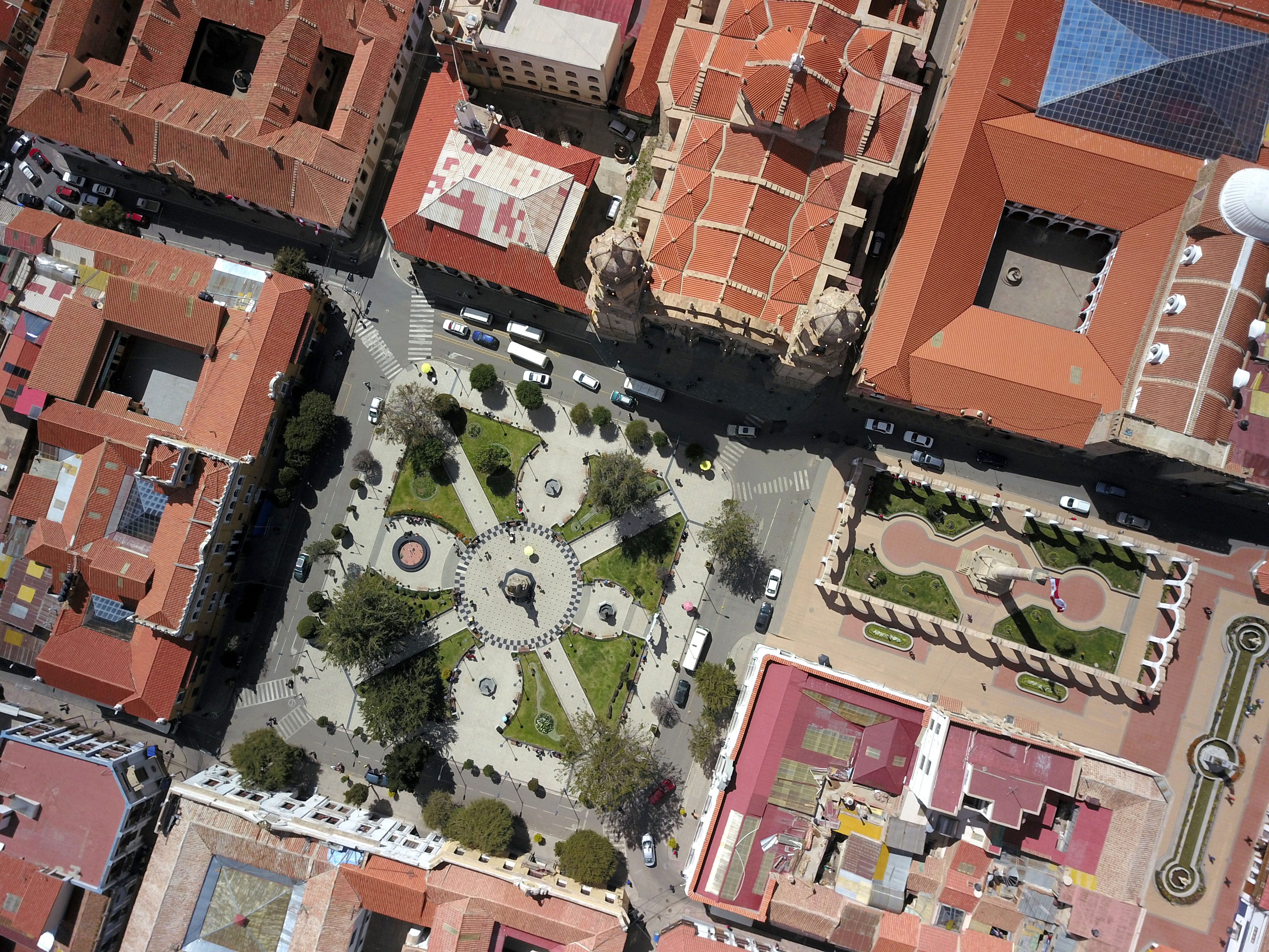 Plaza 10 de Noviembre at center left, with Plaza 6 de Agosto to the right (with obelisk) and the cathedral of Potosí at top.